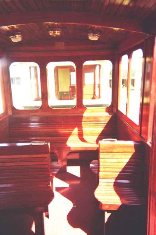 Inside a P-series tram